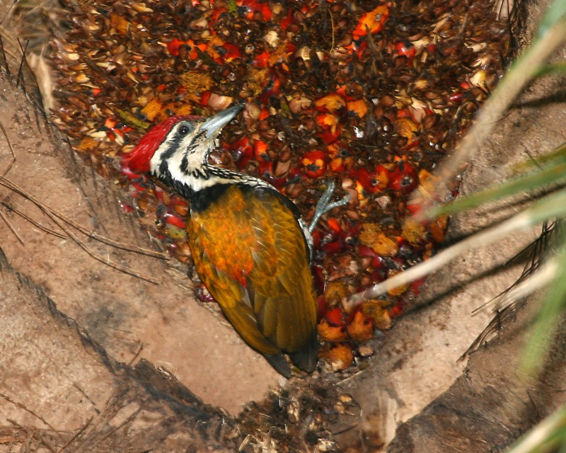 Common Flameback Dinopium javanense javanense aka Picus javanensis, Dinopium javanese See the female: Seen in the Singapore Botanic Garden, 5th. December 2005, feeding on ripening fruits of the oil palm, Elaeis guineensis, a native of west Africa. Although the plant is not native to the areas this subspecies of common flameback is found (South East Asia) the bird has taken to it. It certainly blends in with the fruits so well that only movement gave it away. In adapting its diet the common flameback seems to have added a fruit with the largest natural source of tocotrienol, part of the vitamin E family. It is also a good source of vitamin K and dietary magnesium. Other names: Common Goldenback, Indian Golden-backed Three-toed Woodpecker, Common Gold-backed Woodpecker, Golden-backed Three-toed Woodpecker, Three-toed Woodpecker Malay: Belatuk, Belatuk Pinang Kecil, Burung Belatuk